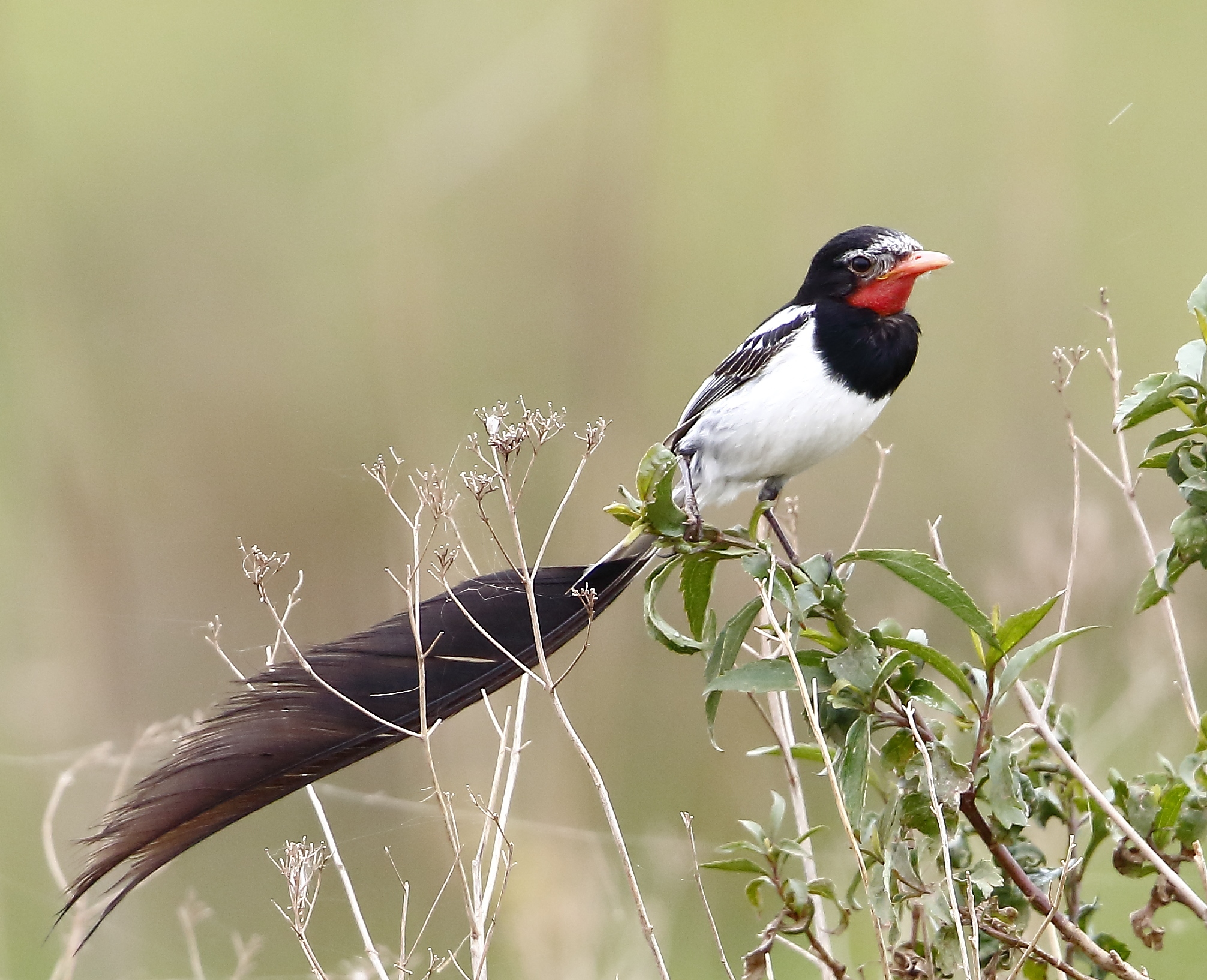 Strange-tailed tyrant (male) at Iberá marshes - Corrientes - Argentina